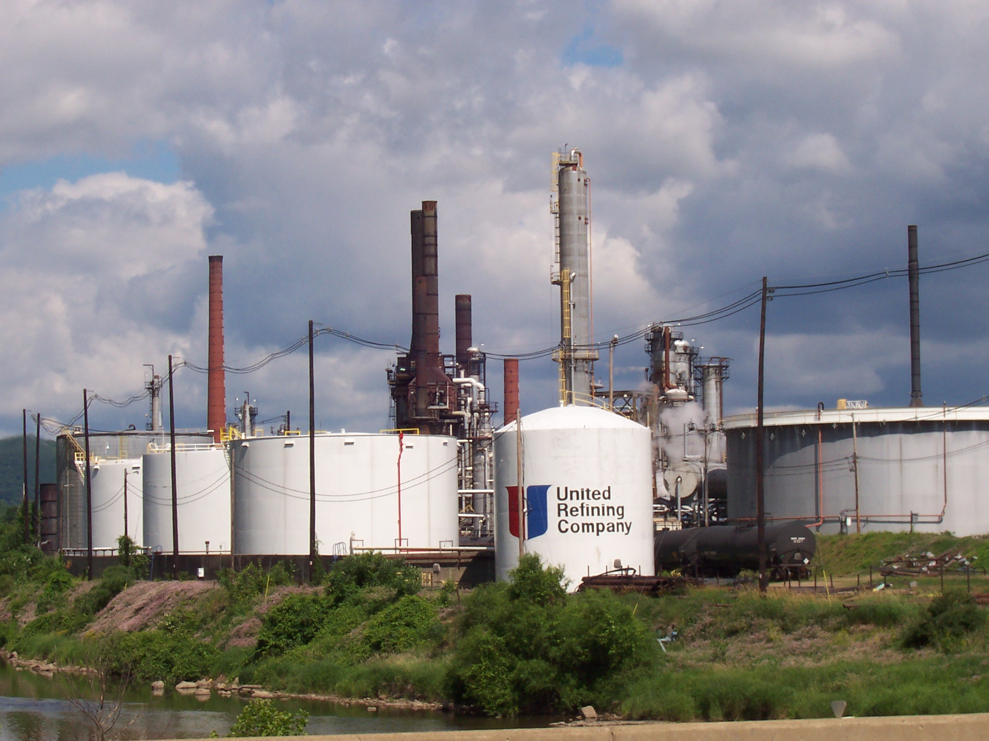 Photo taken myself